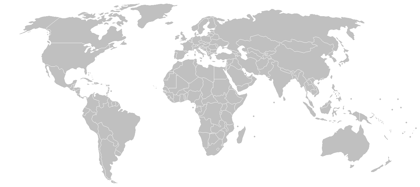 Map marking the microstates for reference (the map is a slightly different version, but the locations of most of the small states are the same) map from wikipedia, summary there: A blank map of the world as of 2005, with country outlines. Sovereign microstates less than 2 500 km² in area are depicted as circles (see Wikipedia:Image_talk:BlankMap-World-v2.png for listing). The map uses the Robinson projection centered on the Greenwich Prime Meridian.